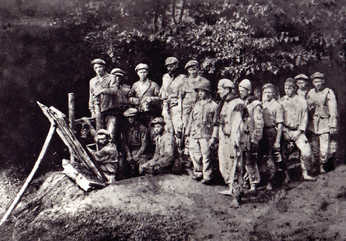 Miners at preparatory works at lignite mine Kalor in Nowosielica, now in Ukraine, 1931. First from right: Ivan Paliychuk.